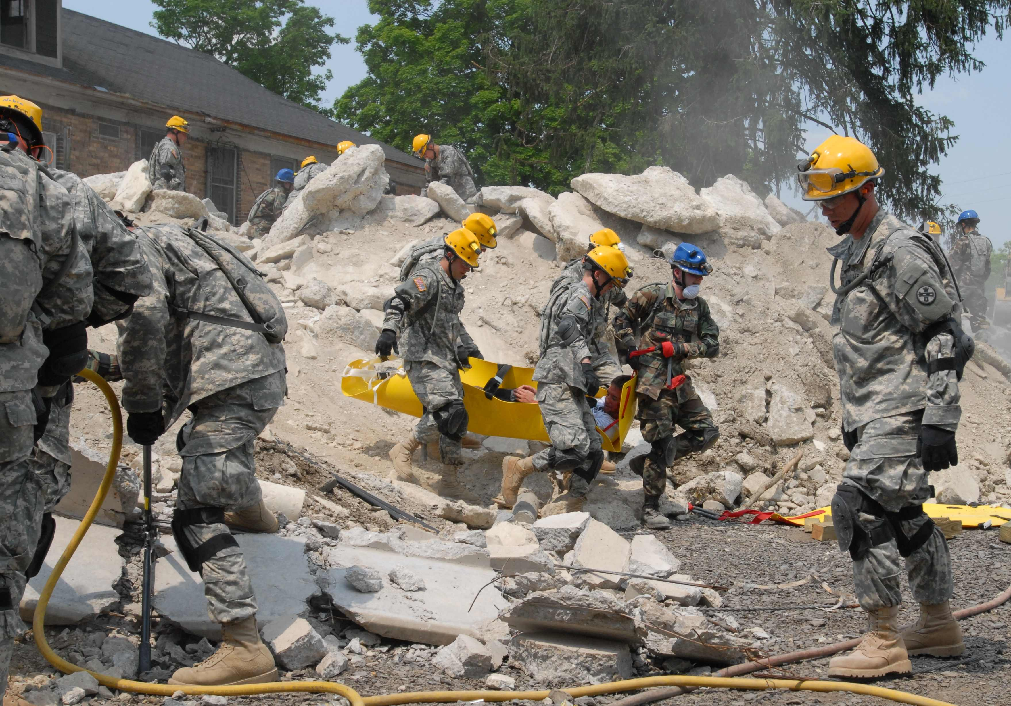 Simulated wounded are dug out of the rubble of collapsed building by members of the Guard’s newly formed Chemical, Biological, Radiological, Nuclear Enhanced Response Force Package, or CERFP teams, while training as part of Vigilant Guard May 12 at the Muscatatuck Urban Training Center, Ind. The CERFP includes search and extraction, decontamination, medical and command and control elements of both the Army and Air National Guard.